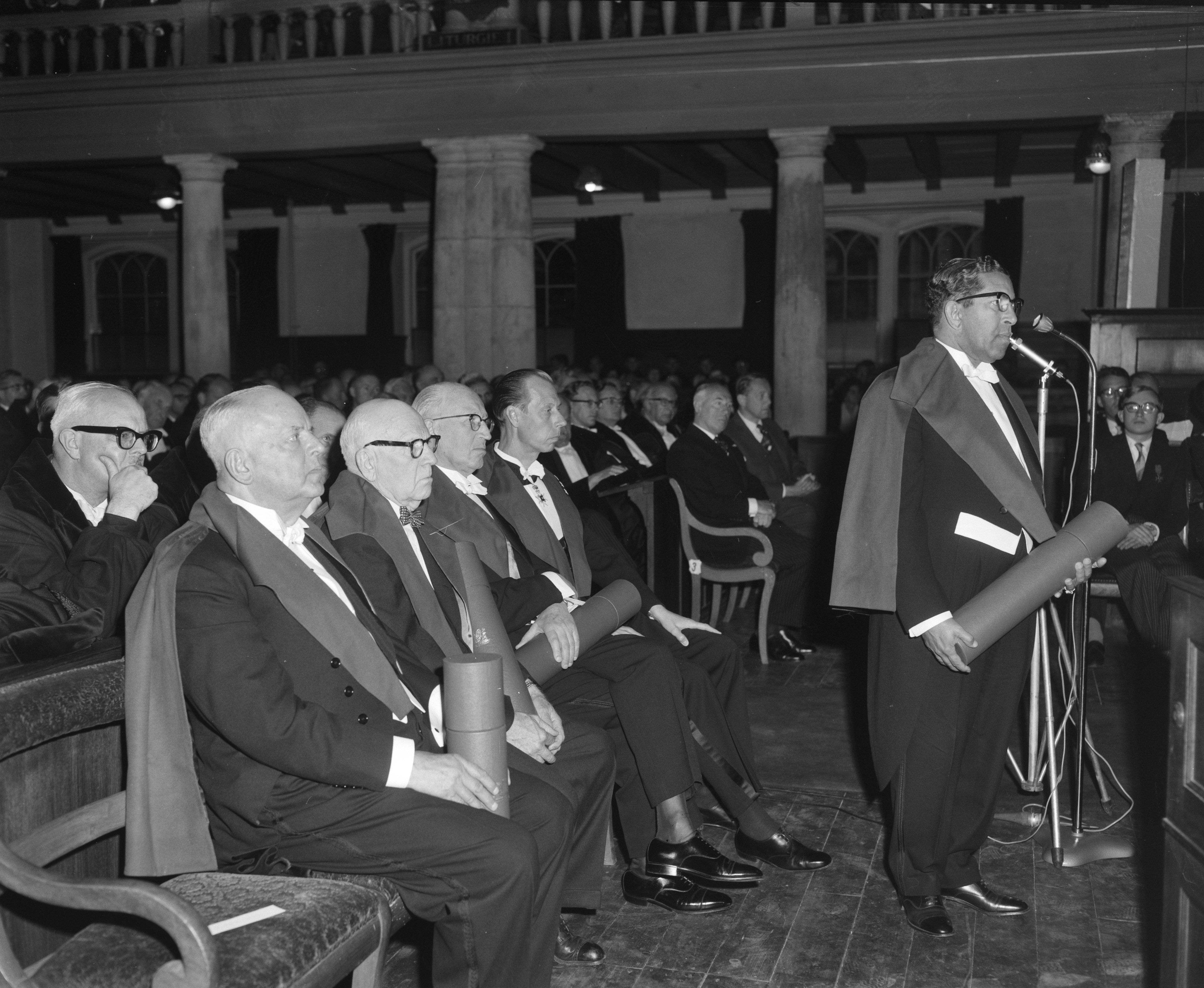 Honorary doctorates Amsterdam University, 1962. Front row, left to right: Ernst Crone, Donald D. van Slyke, W.C. Treurniet and Geo Widengren. Standing: L.A.M. (Lou) Lichtveld (=Albert Helman)